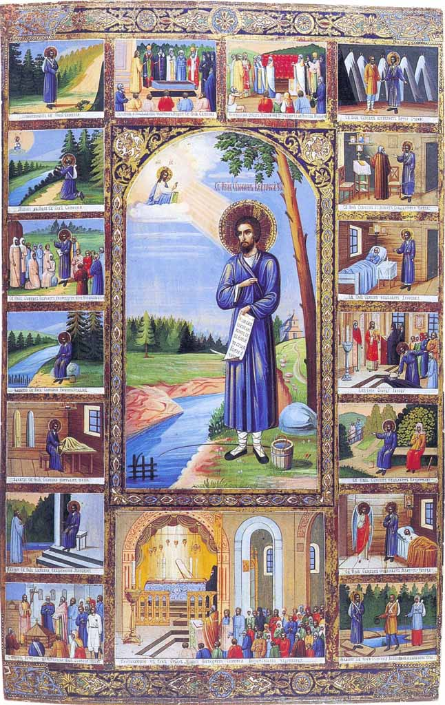 Orthodox icon of Saint Simeon Verkhoturskii, with scenes from his life